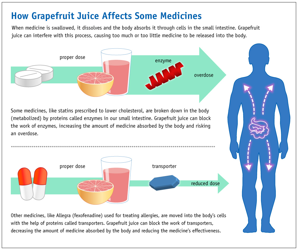 Grapefruit juice can affect how well some medicines work, and it may cause dangerous side effects. Read this FDA Consumer Update: Consumer Updates are a quick and easy way to pick up important health information for you and your family. For a complete list of Consumer Updates see the Consumer Updates photo set: For the latest Consumer Updates go to: This information graphic is free of all copyright restrictions and available for use and redistribution without permission. Credit to the U.S. Food and Drug Administration is appreciated but not required. For more privacy and use information visit: FDA graphic by Michael J. Ermarth